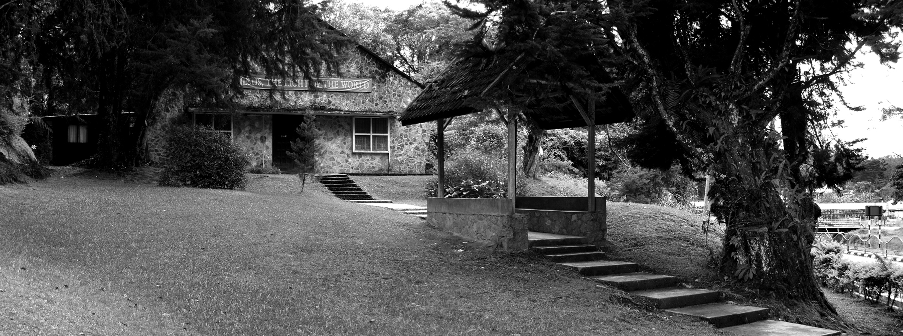 All Souls’ Church, Cameron Highlands. Address: Jalan Perjabat Hutan, Taman Sedia, 39000, Tanah Rata, Cameron Highlands, Pahang, West Malaysia.